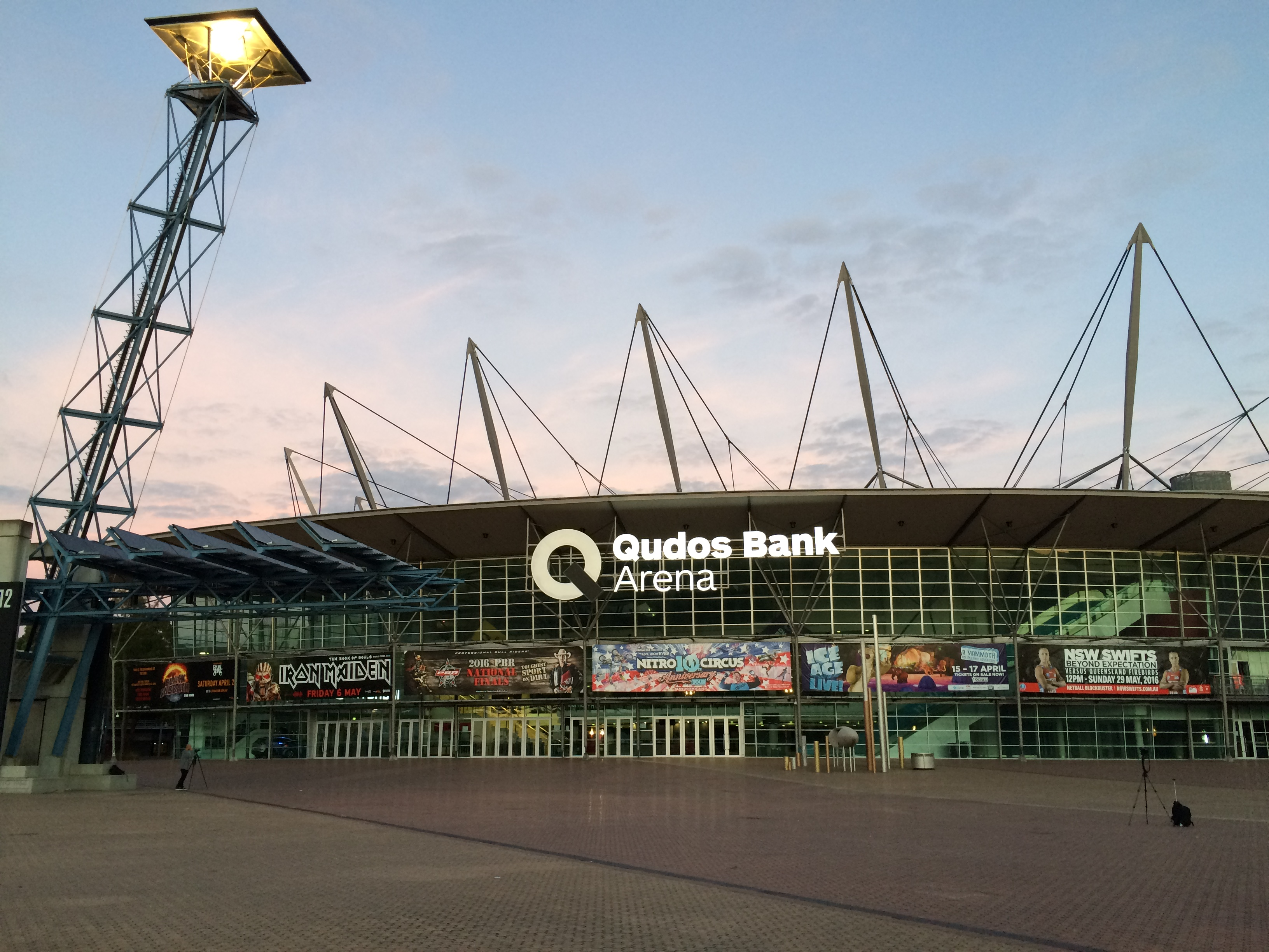 A view of the Sydney Super Dome, now formally known as the Qudos Bank Arena, due to naming rights purchased from Allphones the previous year.